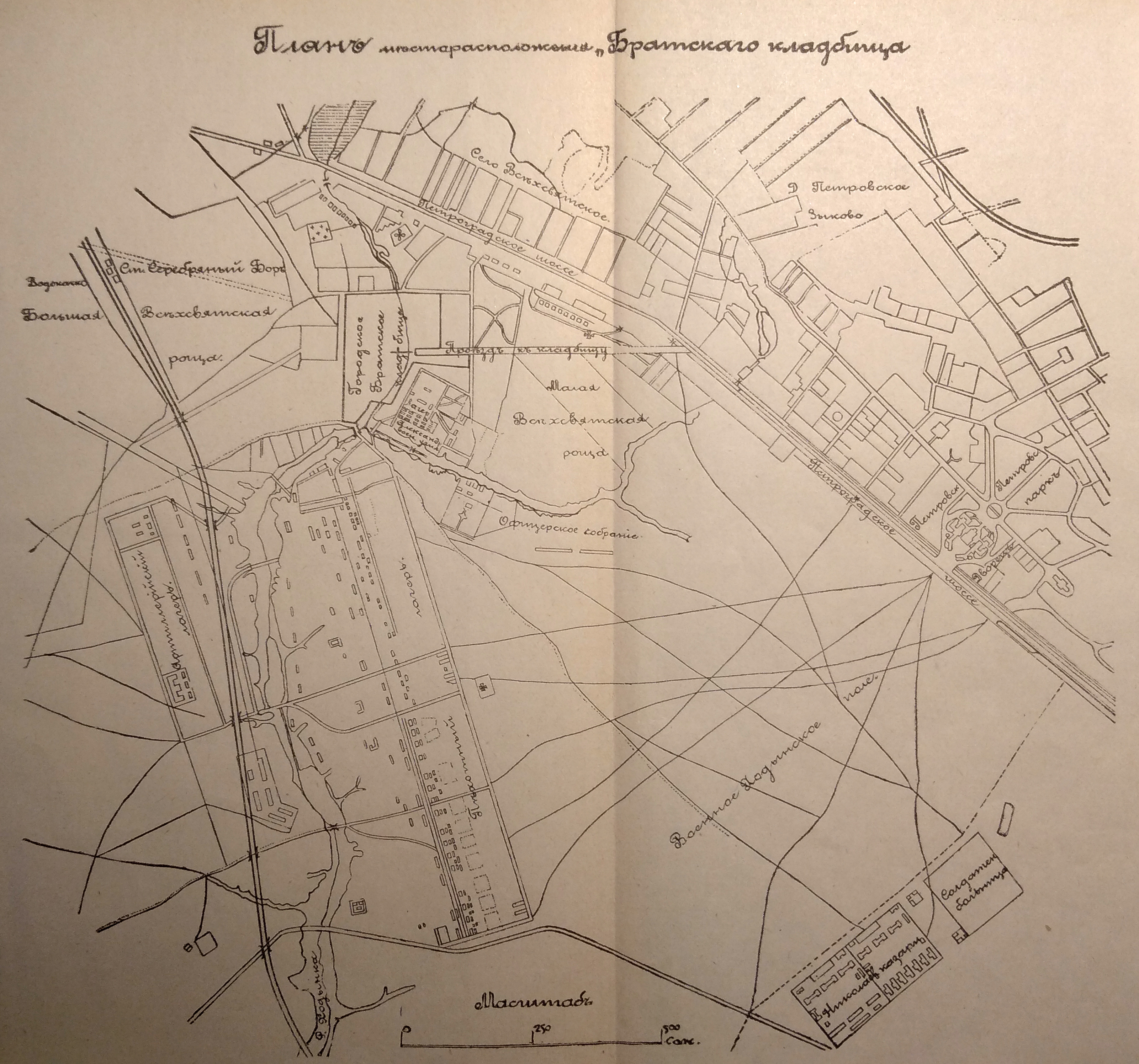 Moscow Brotherly cemetery map